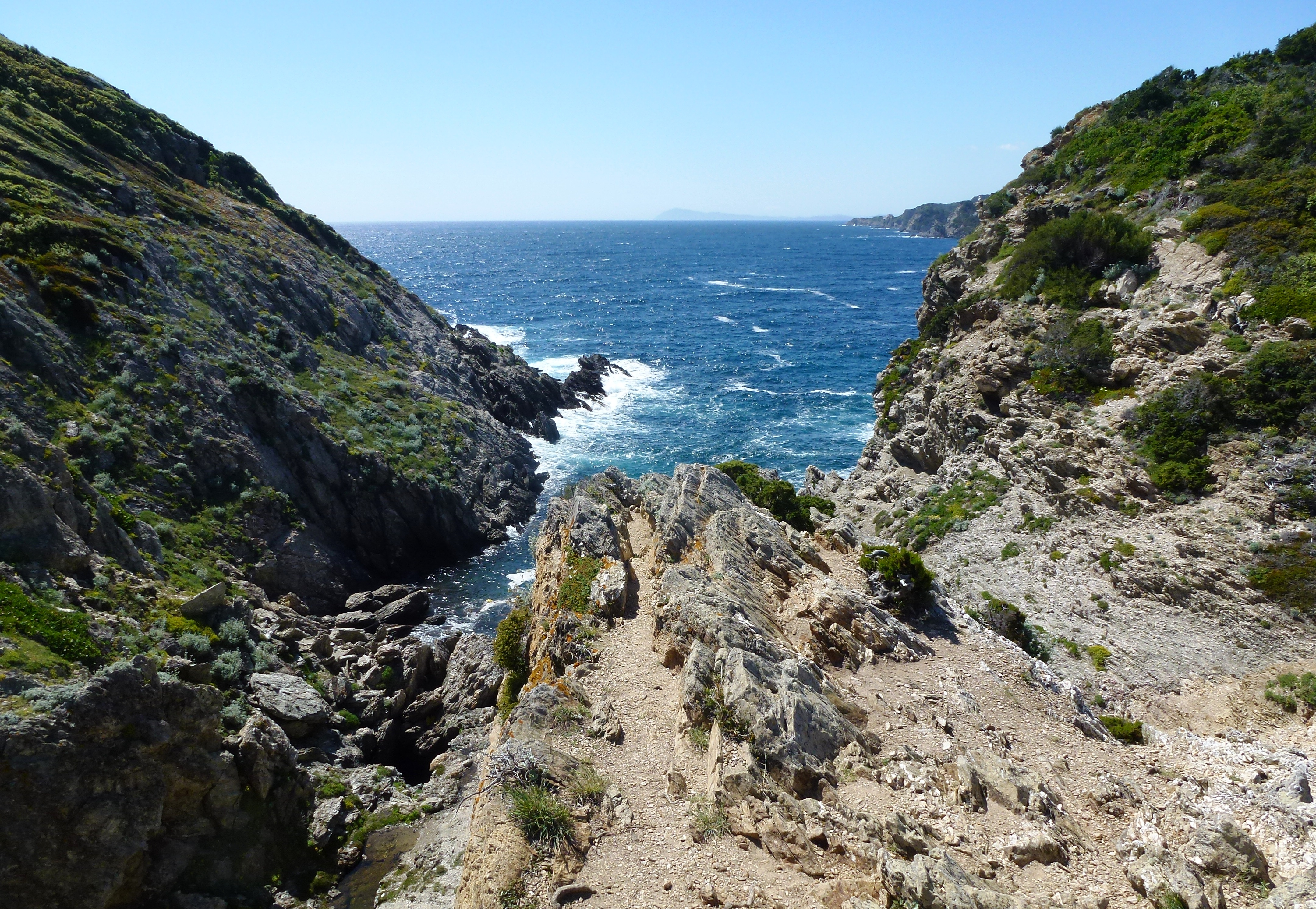 The canjon Gorge de Loup at Porquerolles